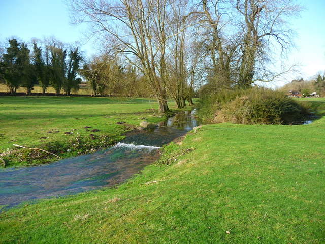 Fyfield - Pillhill Brook The brook drops a few inches here at this small waterfall.